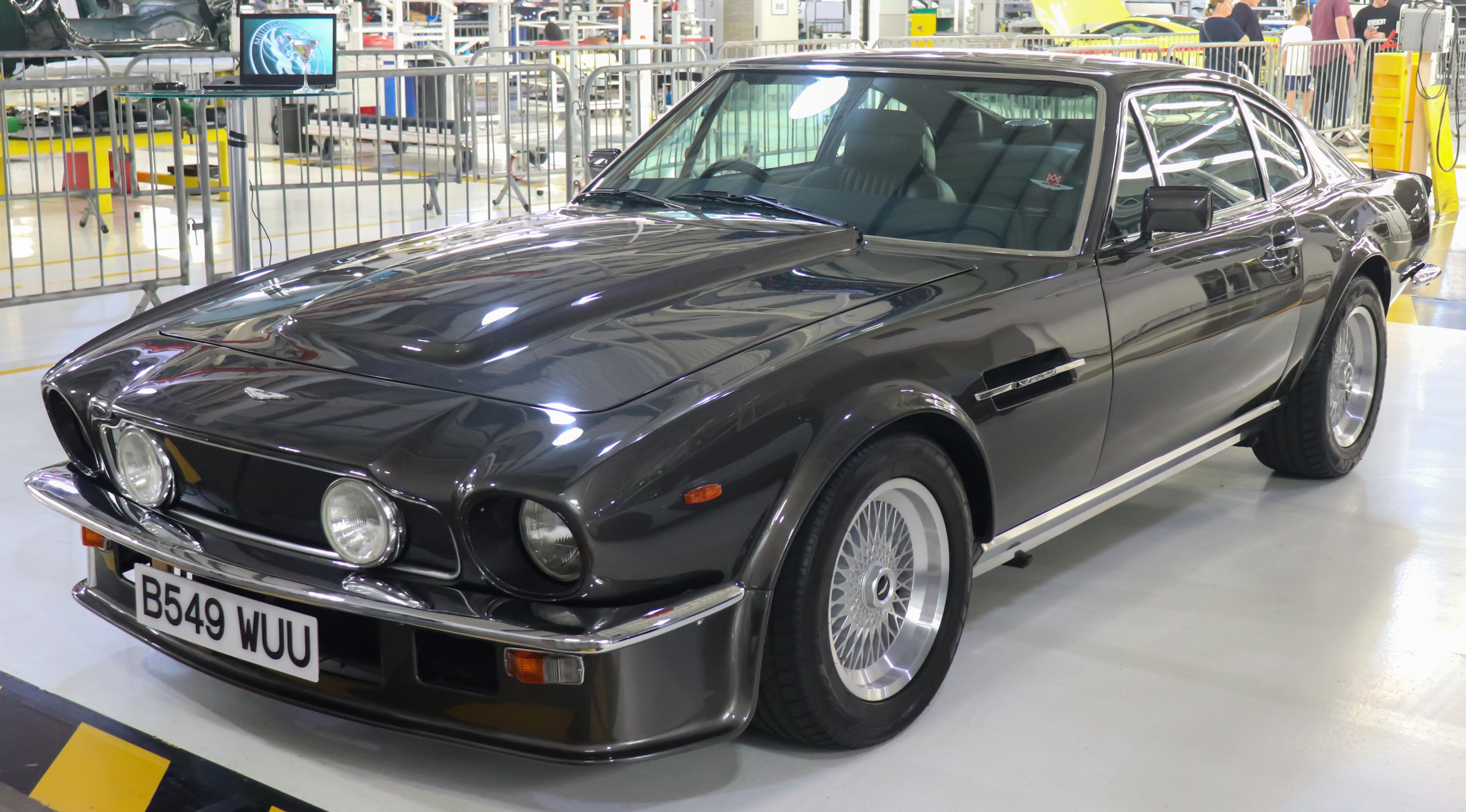 1985 Aston Martin V8 Volante 5.3 Taken at the Aston Martin Lagonda factory, Gaydon